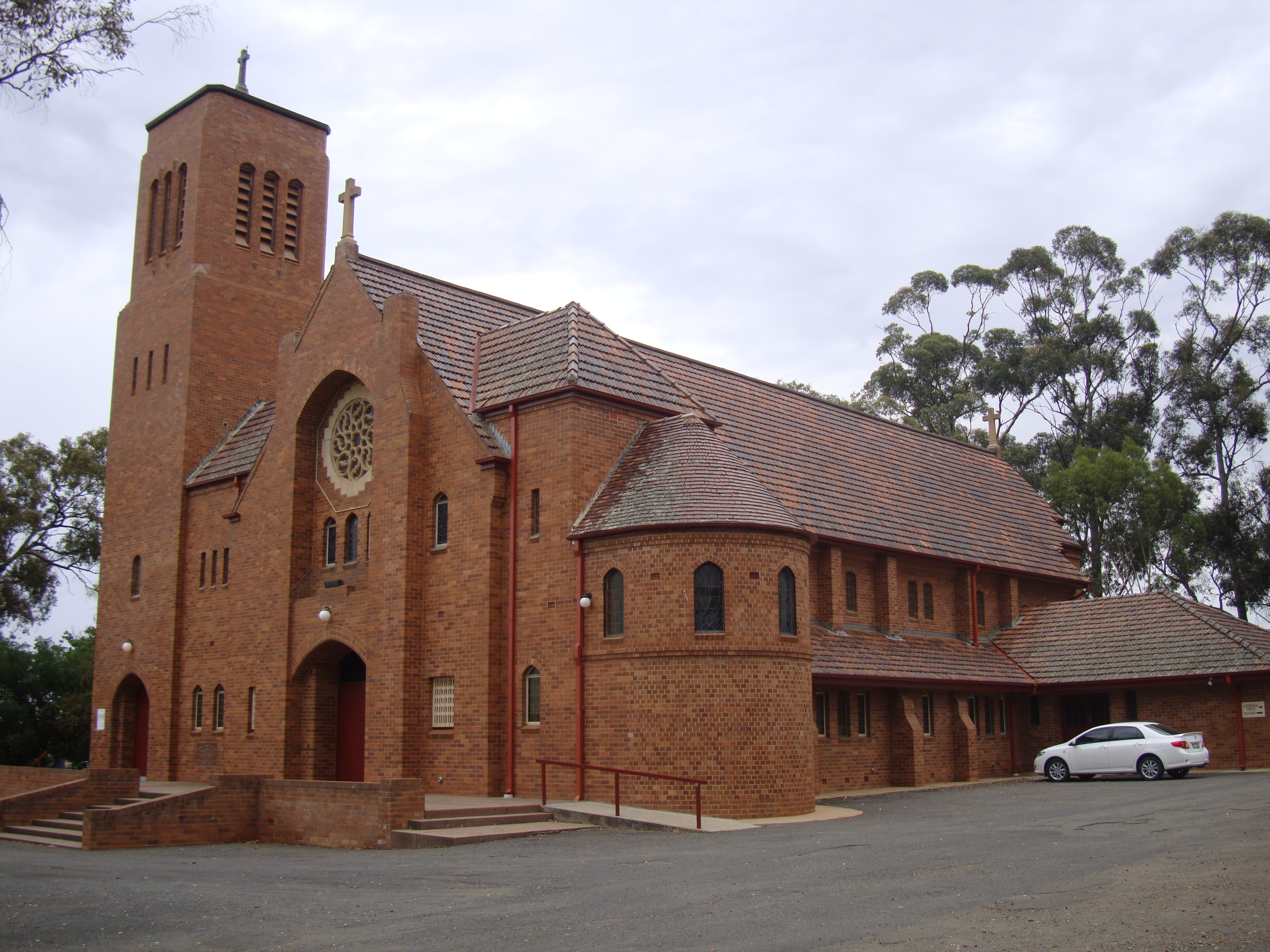 Photograph of St Alban's Cathedral, Griffith, New South Wales, Australia